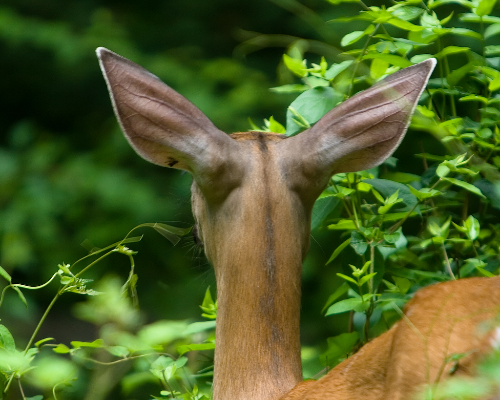 A white-tailed deer (Odocoileus virginianus) in Rock Creek Park, Washington, D.C.